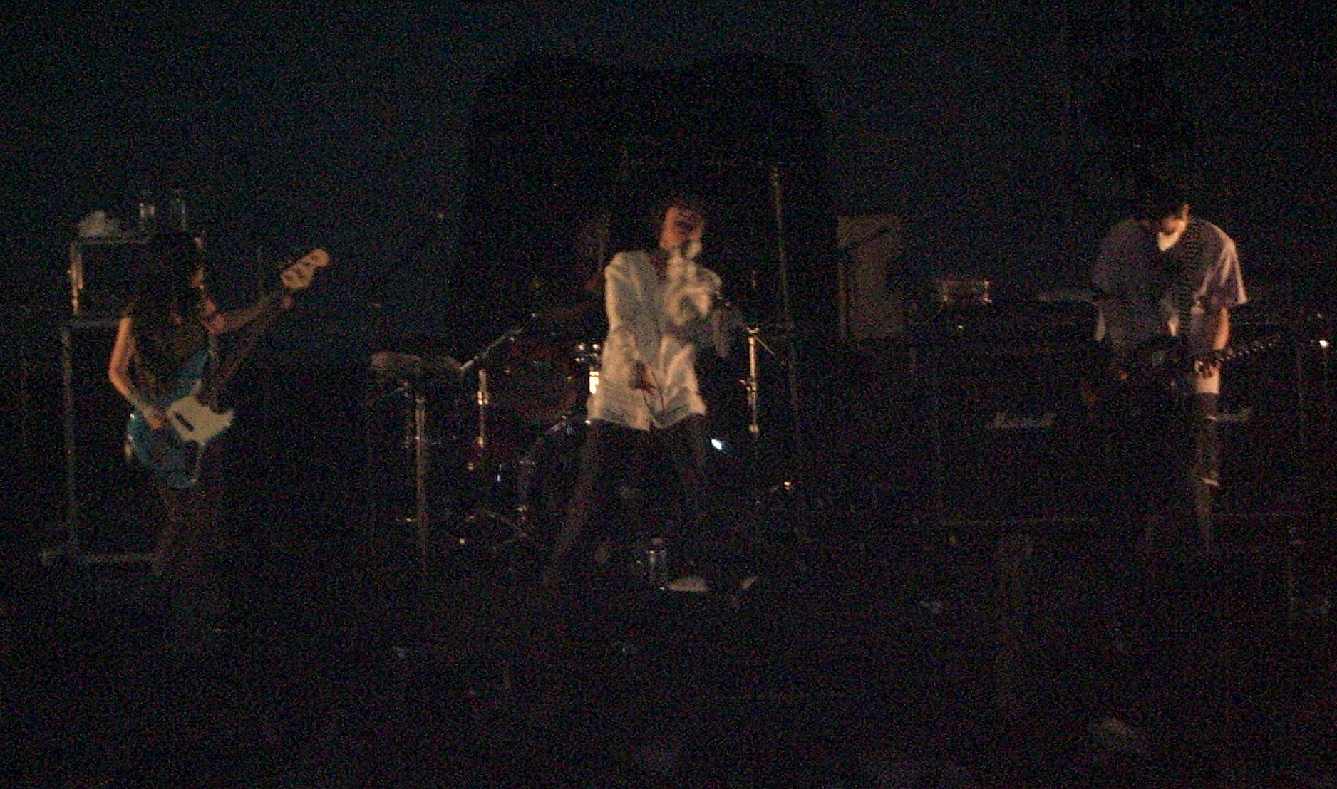 Melt-Banana Live (2008)